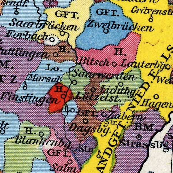 The County of Saarwerden, in 1397, before being aquired by the House of Moers. (light green, above red)